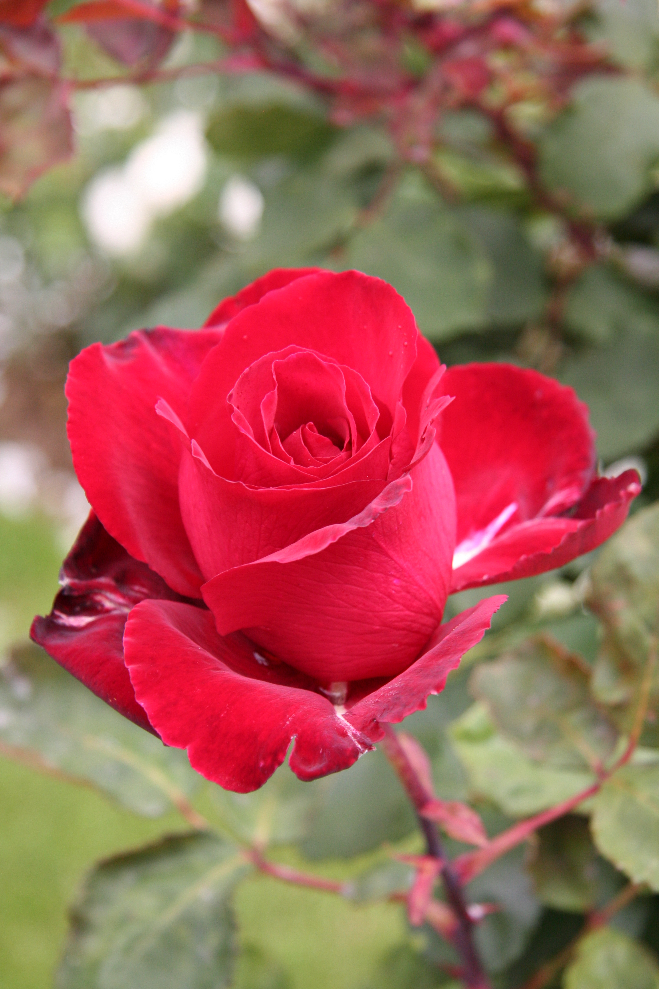 Marcel Pagnol rose - Bagatelle Rose Garden (Paris, France).